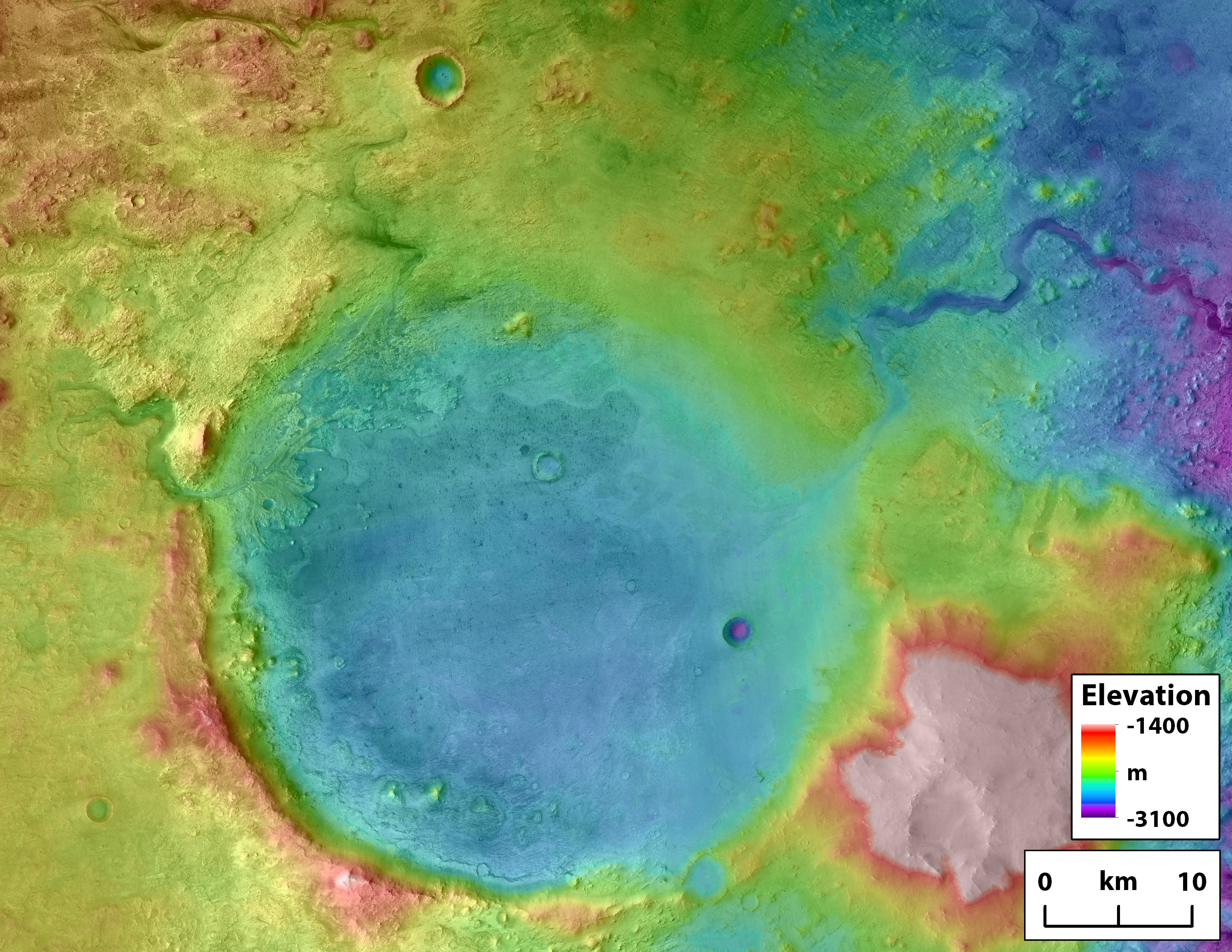 November 16, 2018 JEZERO CRATER - PLANET MARS Overflowing Crater Lakes Carved Canyons Across Mars IMAGE CAPTION Jezero crater is a paleolake and potential landing site for NASA’s Mars 2020 rover mission to look for past life. The outlet canyon carved by overflow flooding is visible in the upper right side of the crater. Ancient rivers carved the inlets on the left side of the crater. NASA/Tim Goudge.[1][2][3] References ↑ RBurnham (19 November 2018). Overflowing crater lakes carved Mars canyon. Red Planet Report. Retrieved on 20 November 2018. ↑ Staff (19 November 2018). "Overflowing Crater Lakes Carved Canyons Across Mars". University of Texas at Austin. Retrieved on 20 November 2018. ↑ Goudge, Timothy A. et al. (6 March 2015). "JGR Planets - Assessing the mineralogy of the watershed and fan deposits of the Jezero crater paleolake system, Mars". AGU100. Retrieved on 20 November 2018.